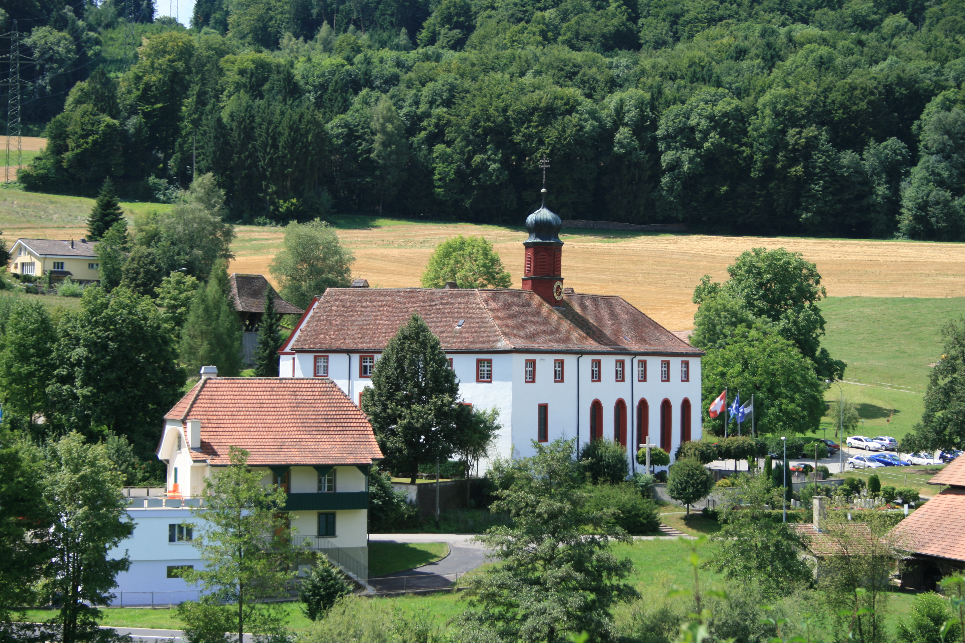 Wislikofen AG, Switzerland